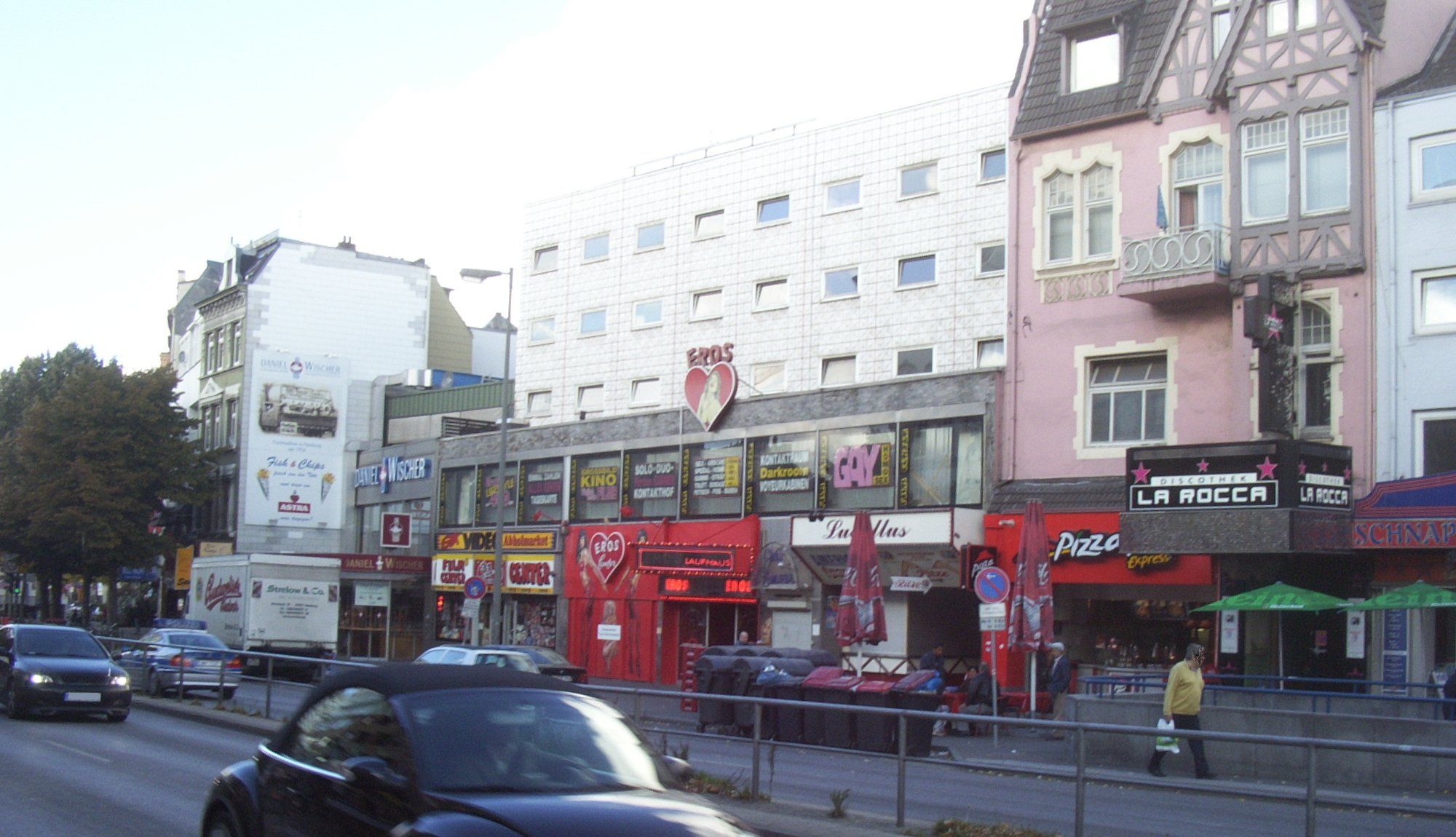 View on the street Reeperbahn in Hamburg, Germany.